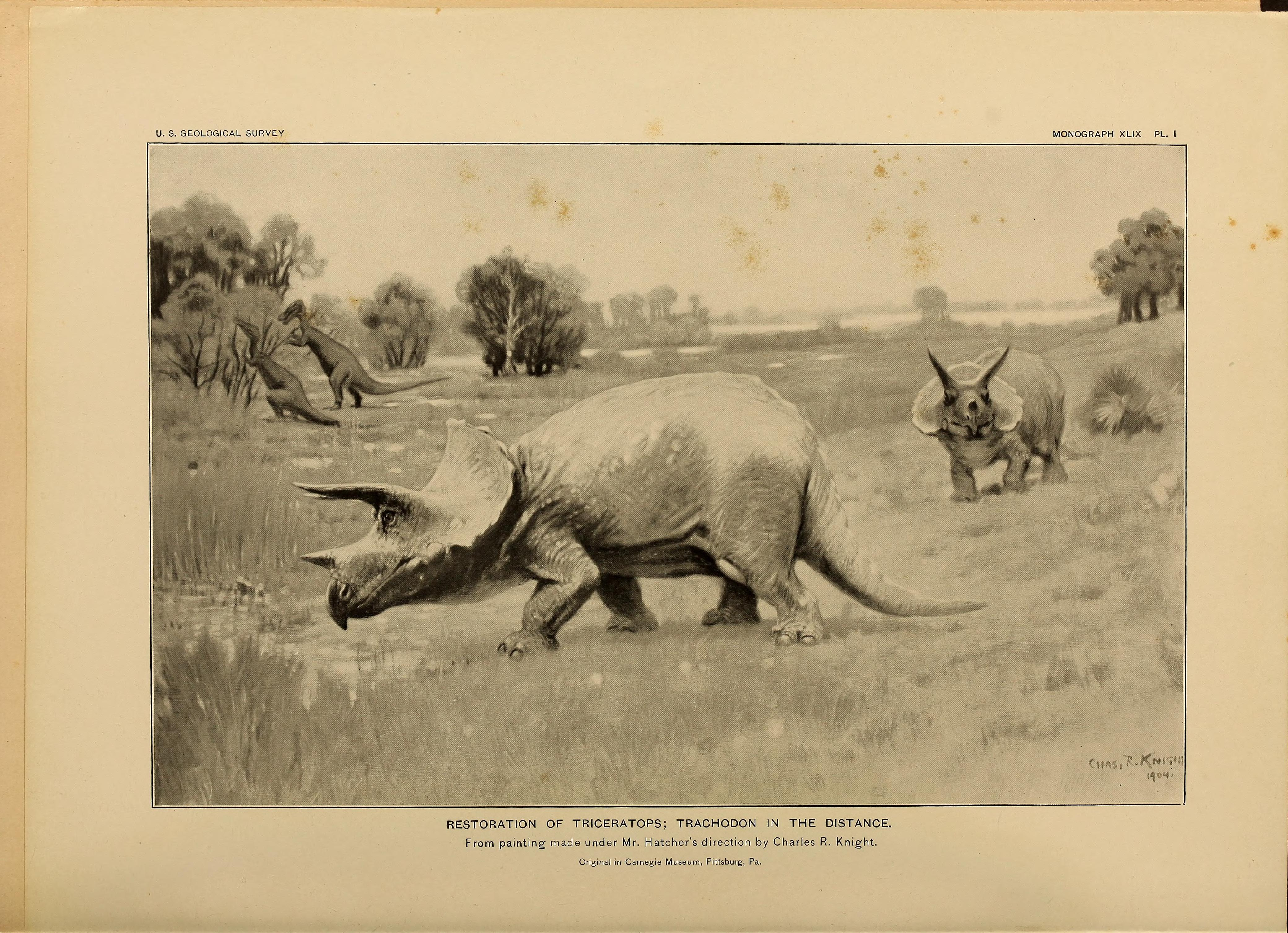 The Ceratopsia